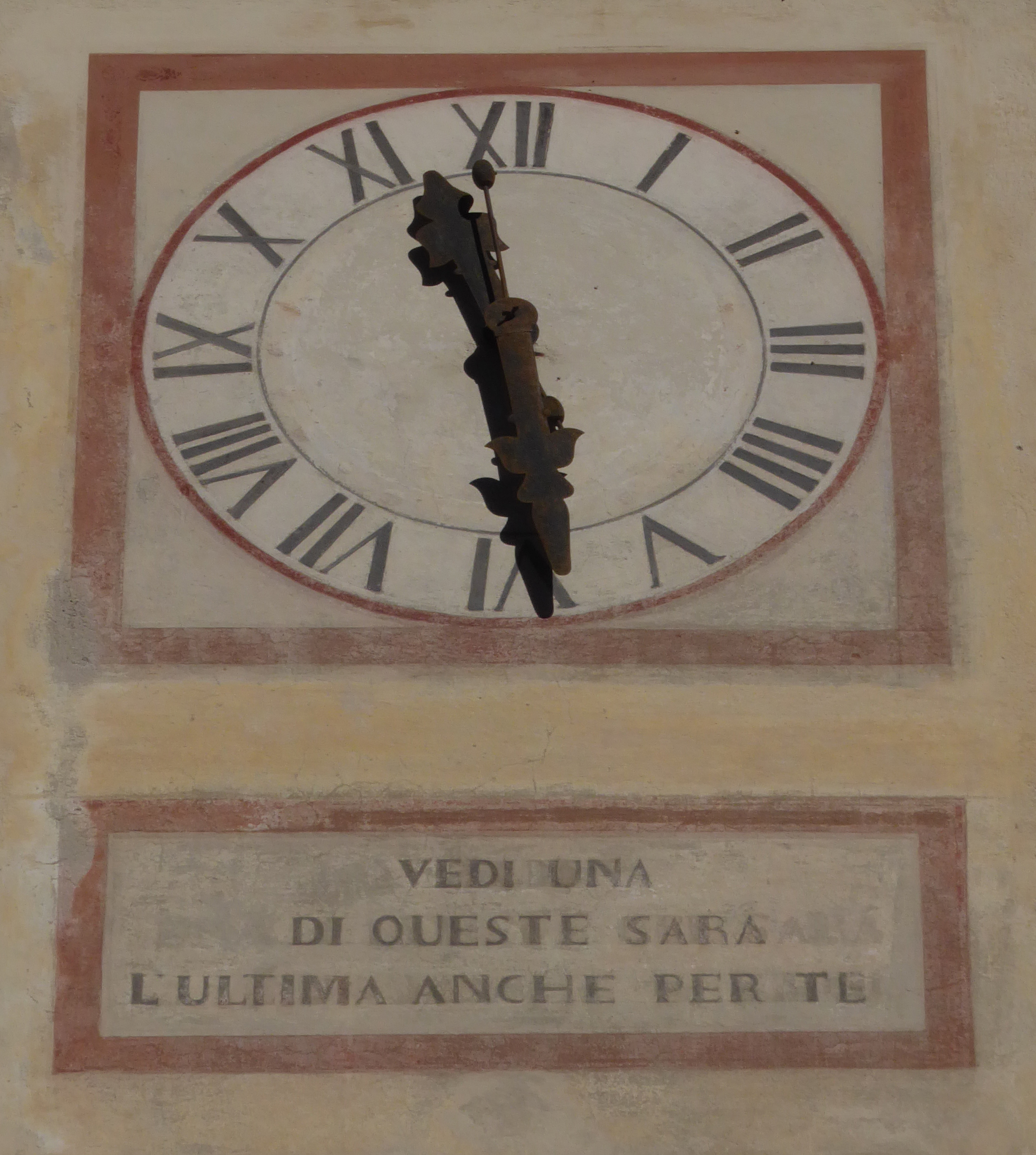 Pré di Ledro (Ledro, Trentino, Italy) - Saint James the Greater church - Clock and inscription on the belltower; the latter says: "Vedi, una di queste [ore] sarà l'ultima anche per te" ("Look, one of these [hours] will be the last for you too", in clear reference to the hour of death)